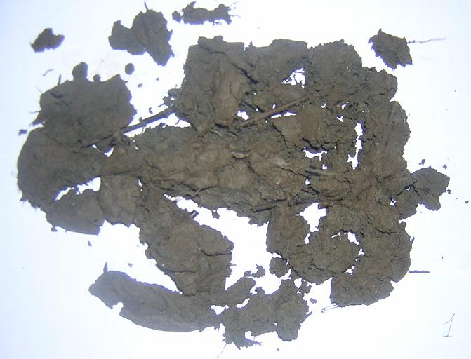 Sediment clay, small river Novrogod region